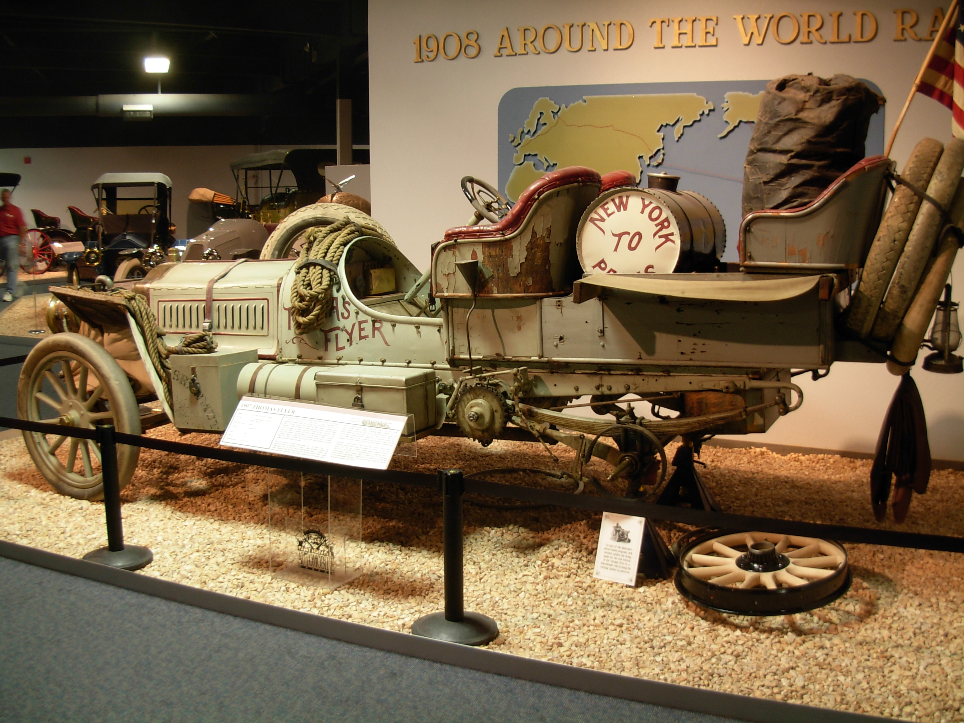 1907 Thomas Flyer MODEL "35" New York-to-Paris Racer BUILT BY E. R. Thomas Motor Co. Buffalo, New York PRICE $4,500 ENGINE 4 Cylinder, 70 H.P. BORE 5-3/4" STROKE 5-1/2" DISPLACEMENT 571.3 Cu. In. The roots of the Thomas marque began with the bicycle company of Erwin R. Thomas. He had built a good reputation for assembling lightweight, strong, fast and inexpensive bicycles. In 1896, Thomas began experimenting with engine building and designed a one cylinder, air-cooled gas engine that could be fitted onto his quality bicycles, calling the complete unit an "Auto-Bi". But more important to automotive history was the appearance of his first one-cylinder, four-wheeled motor carriage in 1899. Thomas erected a factory especially for automobile production in Buffalo, New York, and promoted his product with advertisements, sales catalogs, and sales manuals. The four-cylinder model designated as "Thomas Flyer" had proved to be very reliable, so when it was decided to enter the 1908 New York to Paris (Round-the-World) Race, a brand new 1907 Thomas Flyer was removed from the showroom floor. Extra gas tanks were mounted, spare tires strapped on, and some minor modifications made. After traveling 12,427 land miles (over 22,000 miles overall, including sea voyages) in 170 days, George Schuster, the only crew member to travel the entire distance, drove this car into Paris to win the race. There has not been another attempt at a round-the-world auto race since 1908, and as the current world record holder, this is arguably the most historic American automobile in existence. Because of its victory in the 1908 New York to Paris Race, Thomas automobile sales increased for a time. In 1911 and early 1912, only six cylinder models were produced and by the end of 1912, E. R. Thomas Motor Car Company production ceased. National Automobile Museum, Lake St, Reno, Nevada, USA.